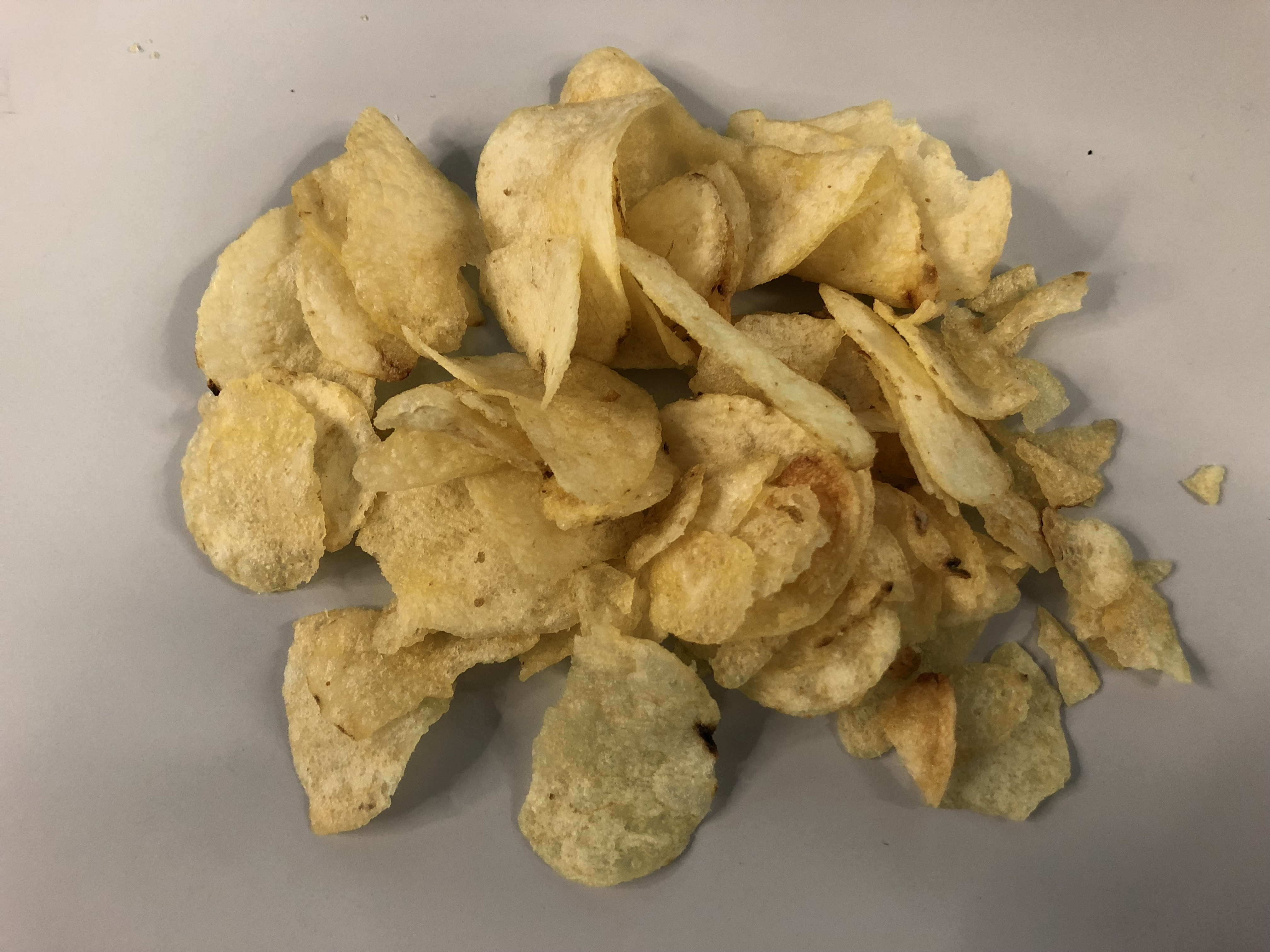 Lay's Salt and Vinegar Flavored Potato Chips in the Dulles section of Sterling, Loudoun County, Virginia